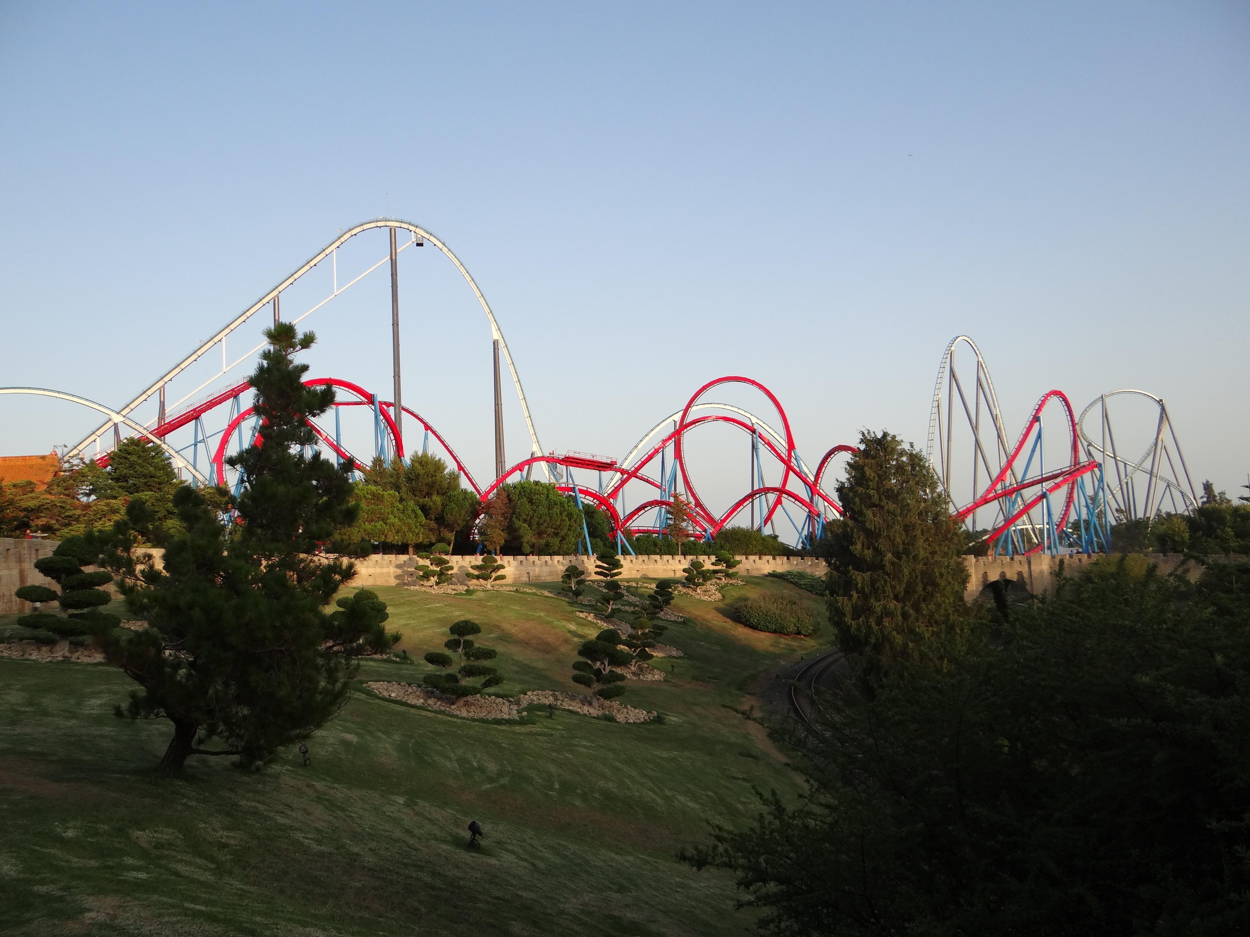 Dragon Khan and Shambhala in Port Aventura from the Chinese wall